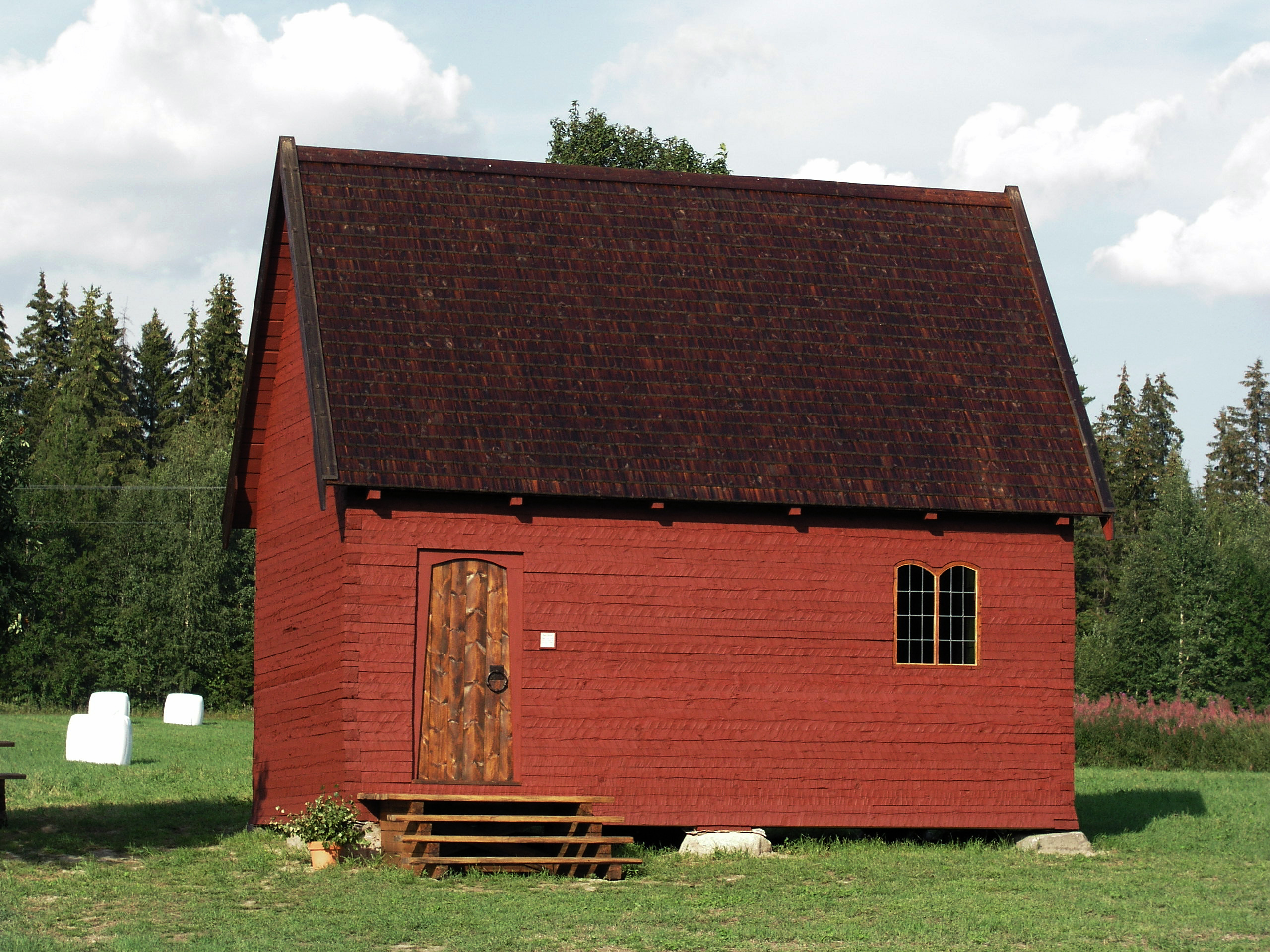 Stråsjö chapel, Bjuråkers församling, Hälsingland, Sweden. Diocese of Uppsala.